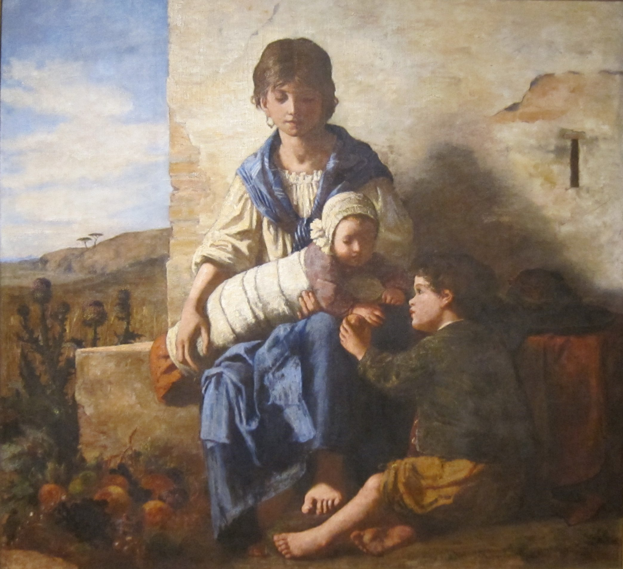 Woman and Children